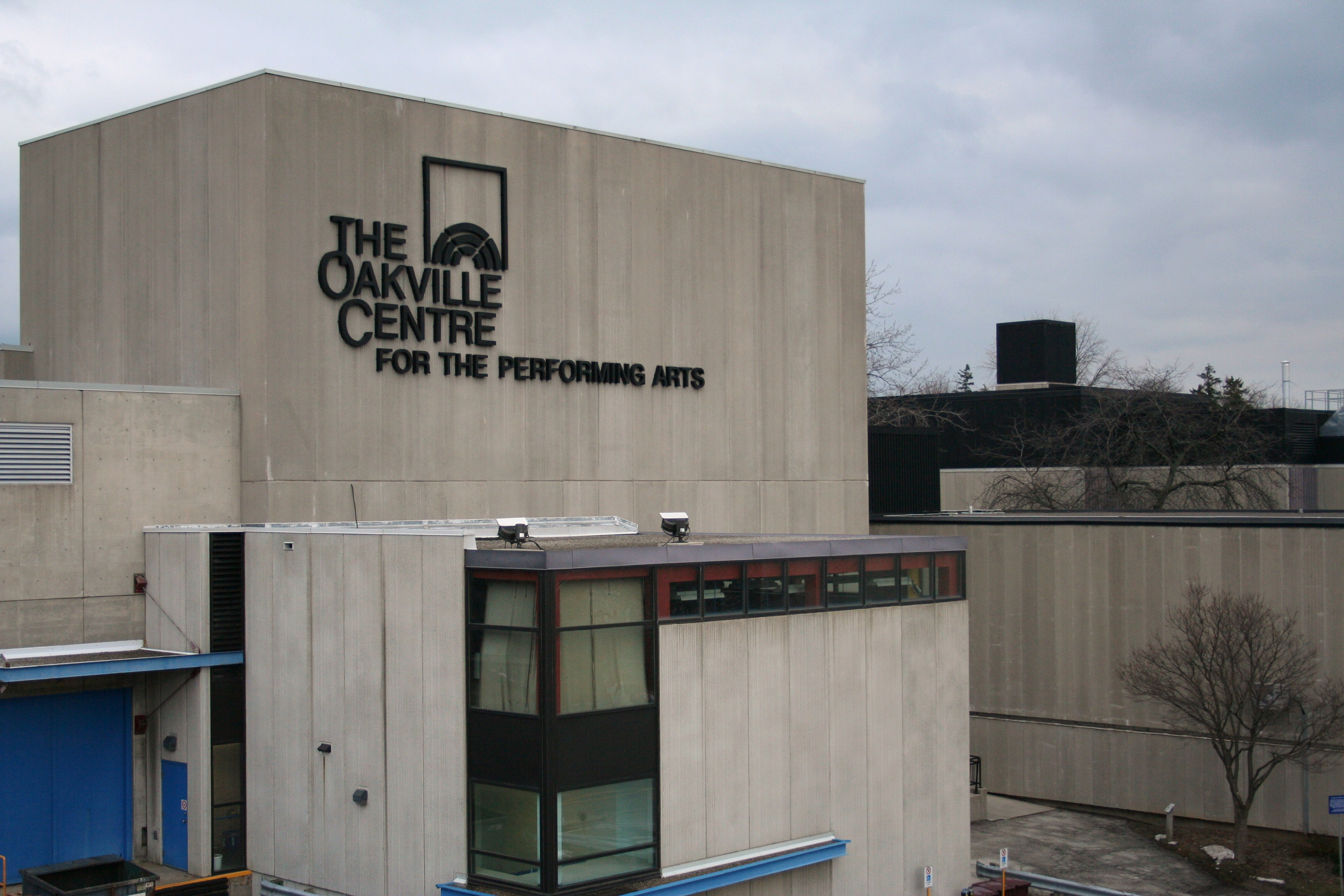 The Oakville Centre for the Performing Arts in Oakville, Ontario, Canada